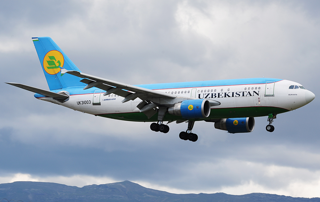 UK-31003 A310-324 of Uzbekistan at Geneva on May 17, 2011.